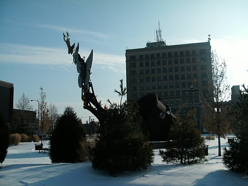 Gary, Indiana's Centennial Statue 1906-2006